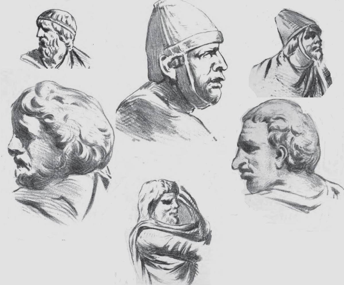 Dacians, physical characteristics